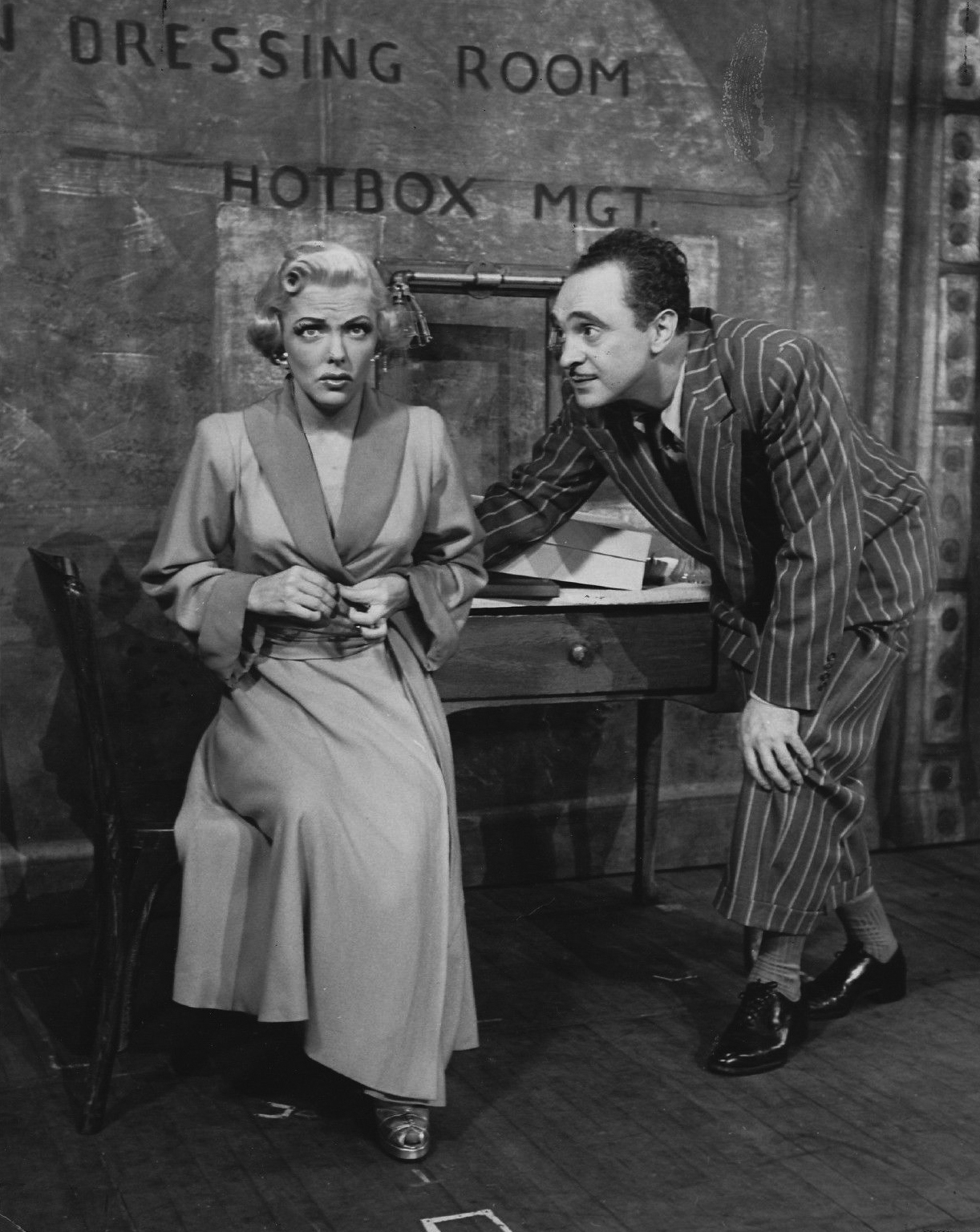 Viviane Blaine Sam Levene in the Original Broadway Production of Guys and Dolls